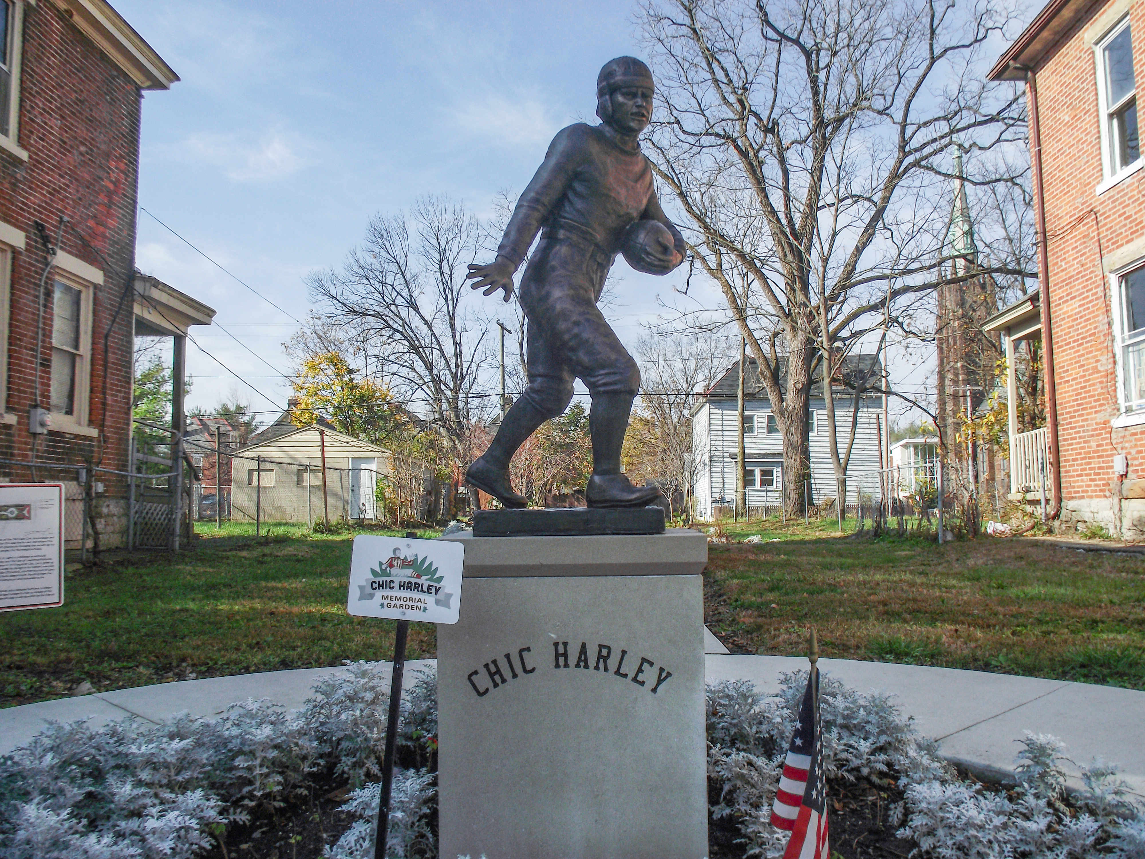 A monument memorialized in a park to Chic Harley